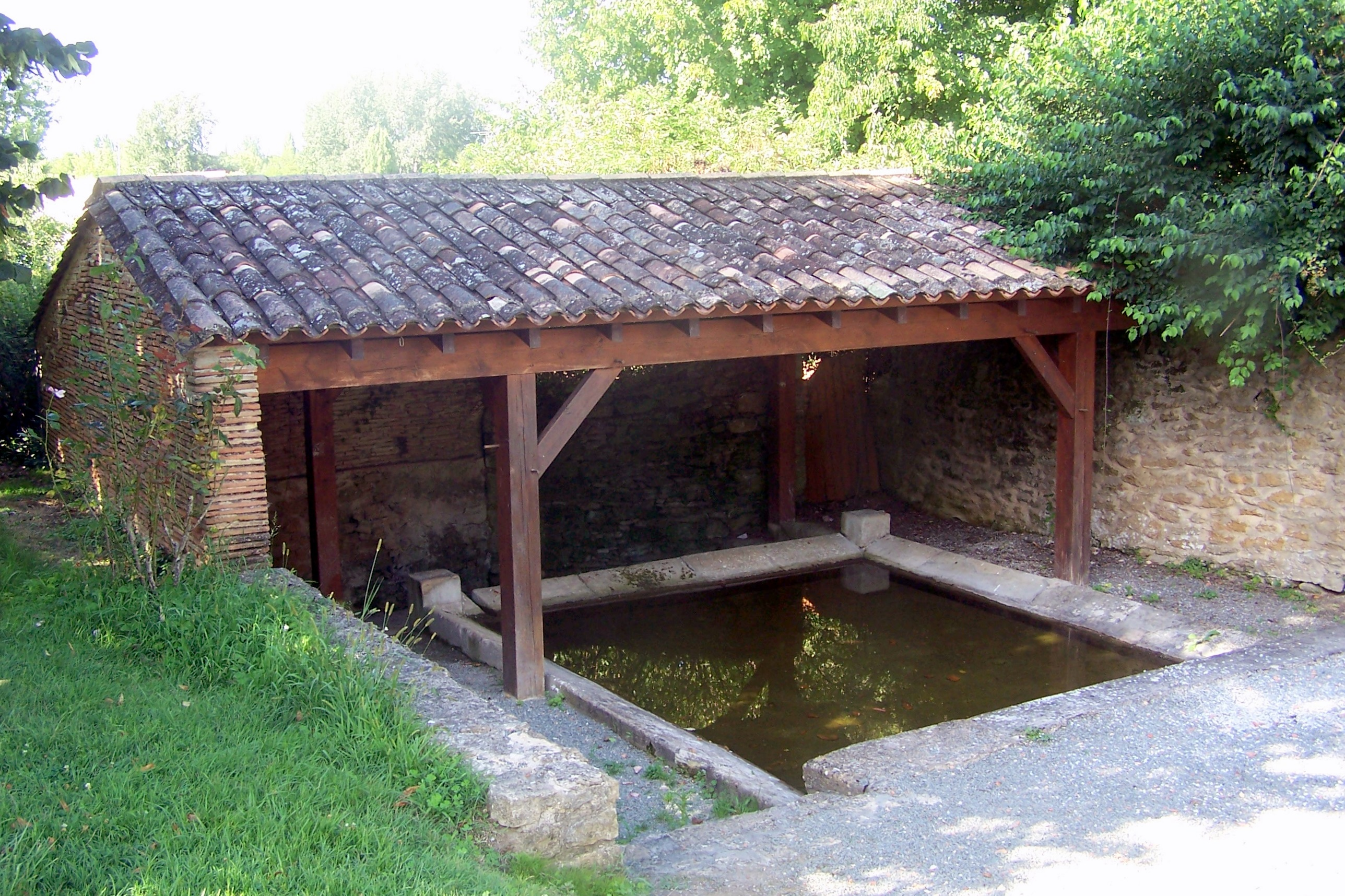 Wash house in Bagas (Gironde, France)